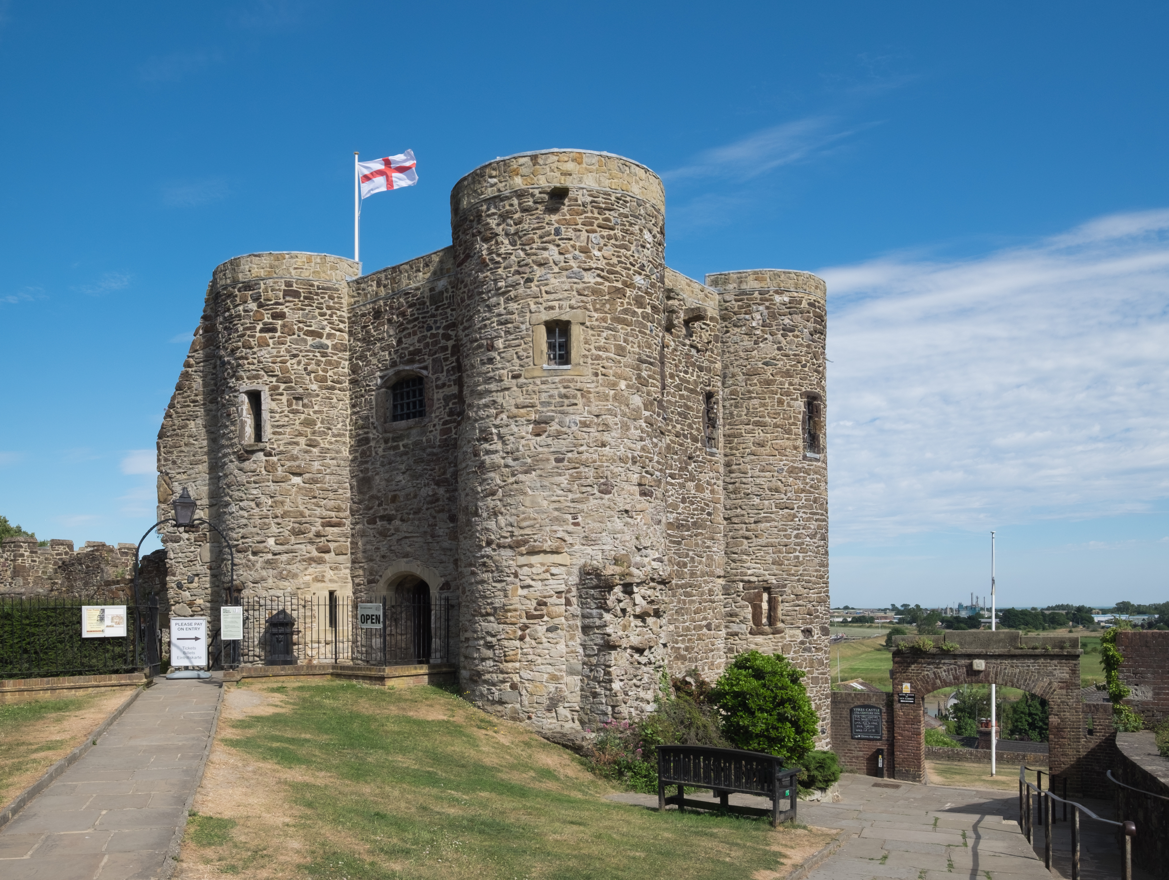 The Ypres Tower, Rye Castle. This 14th century defensive tower is a grade I listed building in England.